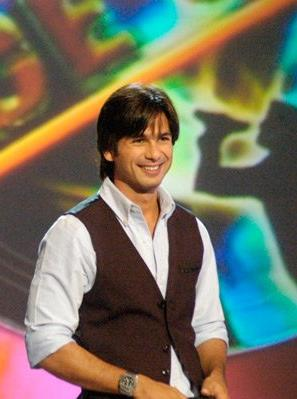 Indian actor Shahid Kapoor